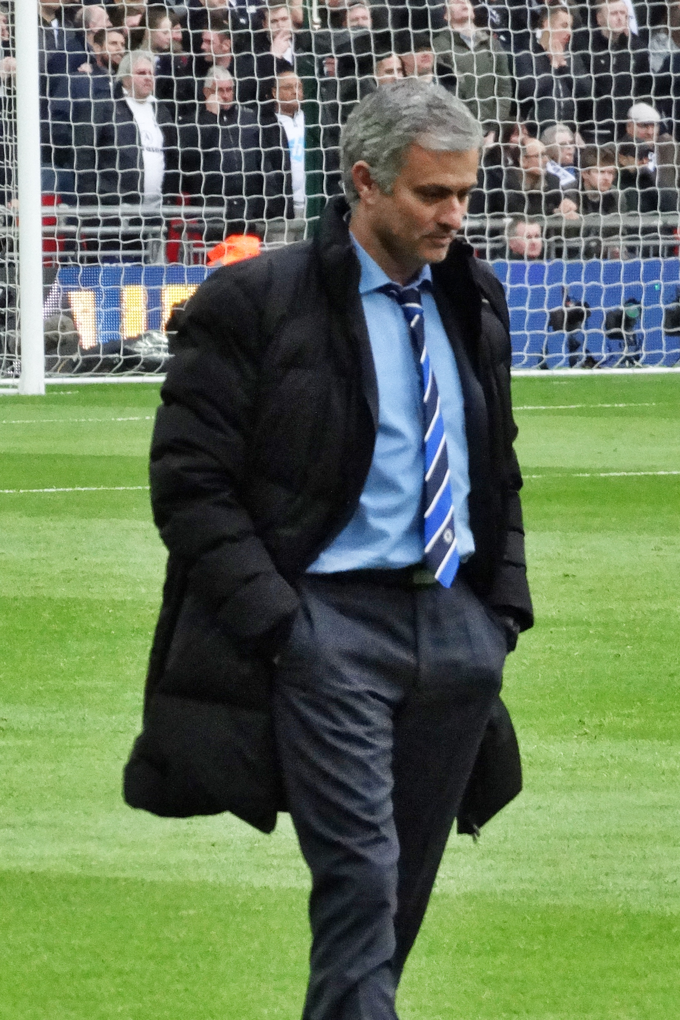 Chelsea 2 Spurs 0 Capital One Cup winners 2015